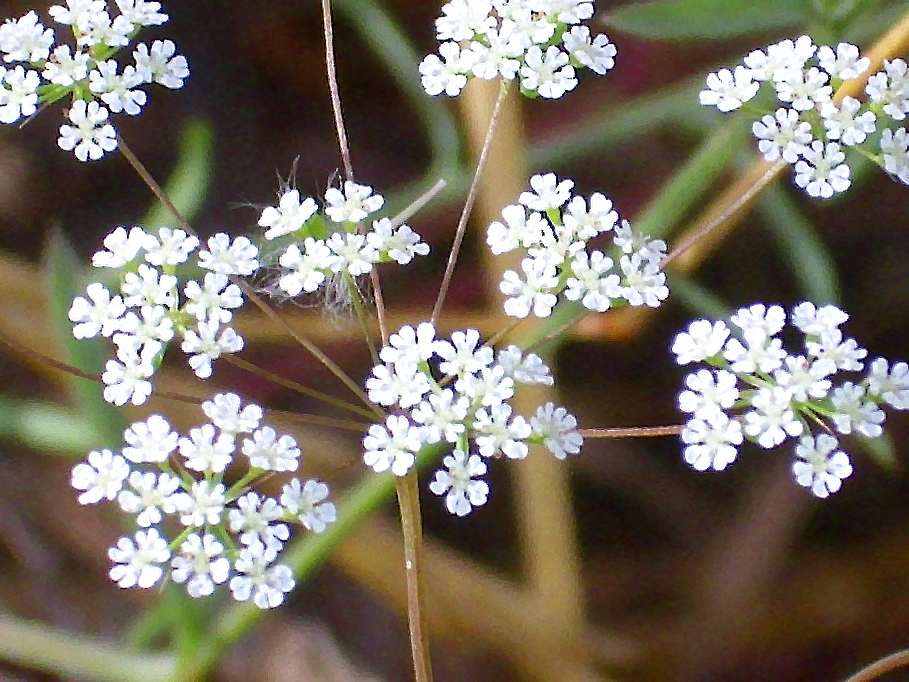 Ammoides pusilla flowers close up Campo de Calatrava, Spain